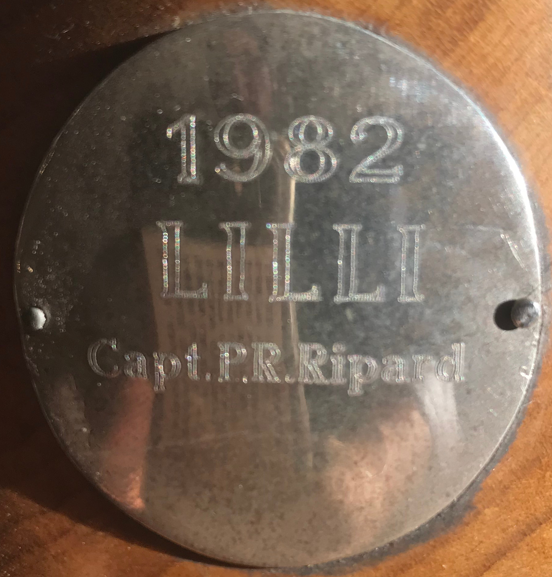 Patch on the Trophy